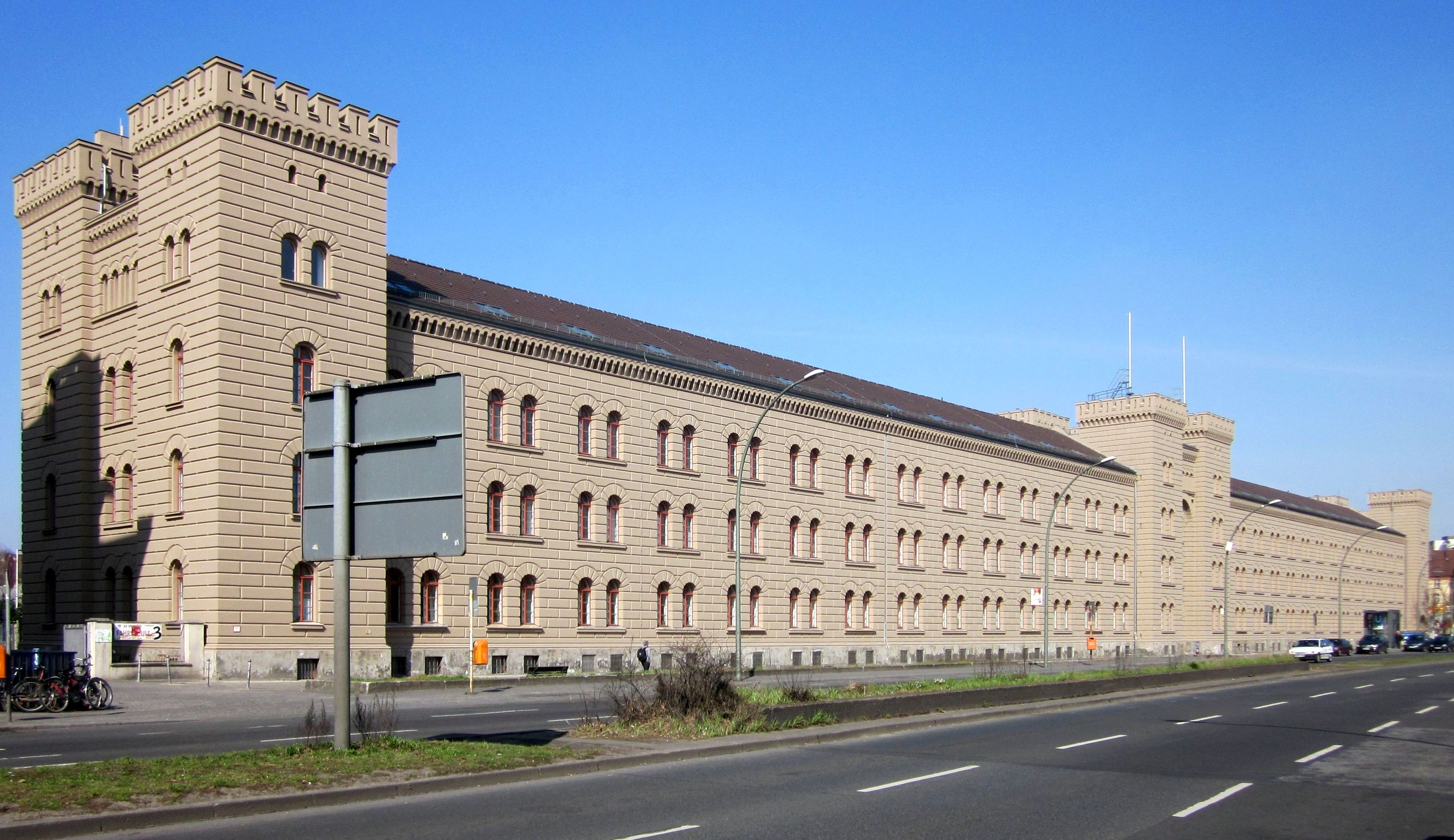 The Tax Office Kreuzberg at Mehringdamm 20/30 in Berlin-Kreuzberg. The building was constructed from 1850 to 1854 to a design by Ferdinand Fleischinger and Wilhelm Drewitz as barracks for Prussian dragoons. The complex also encompasses old horse stables and a riding hall in the rear part of the lot. The whole complex has been designated a historic landmark.